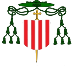 Coat of arms of Johann Prokop von Schaffgotsch